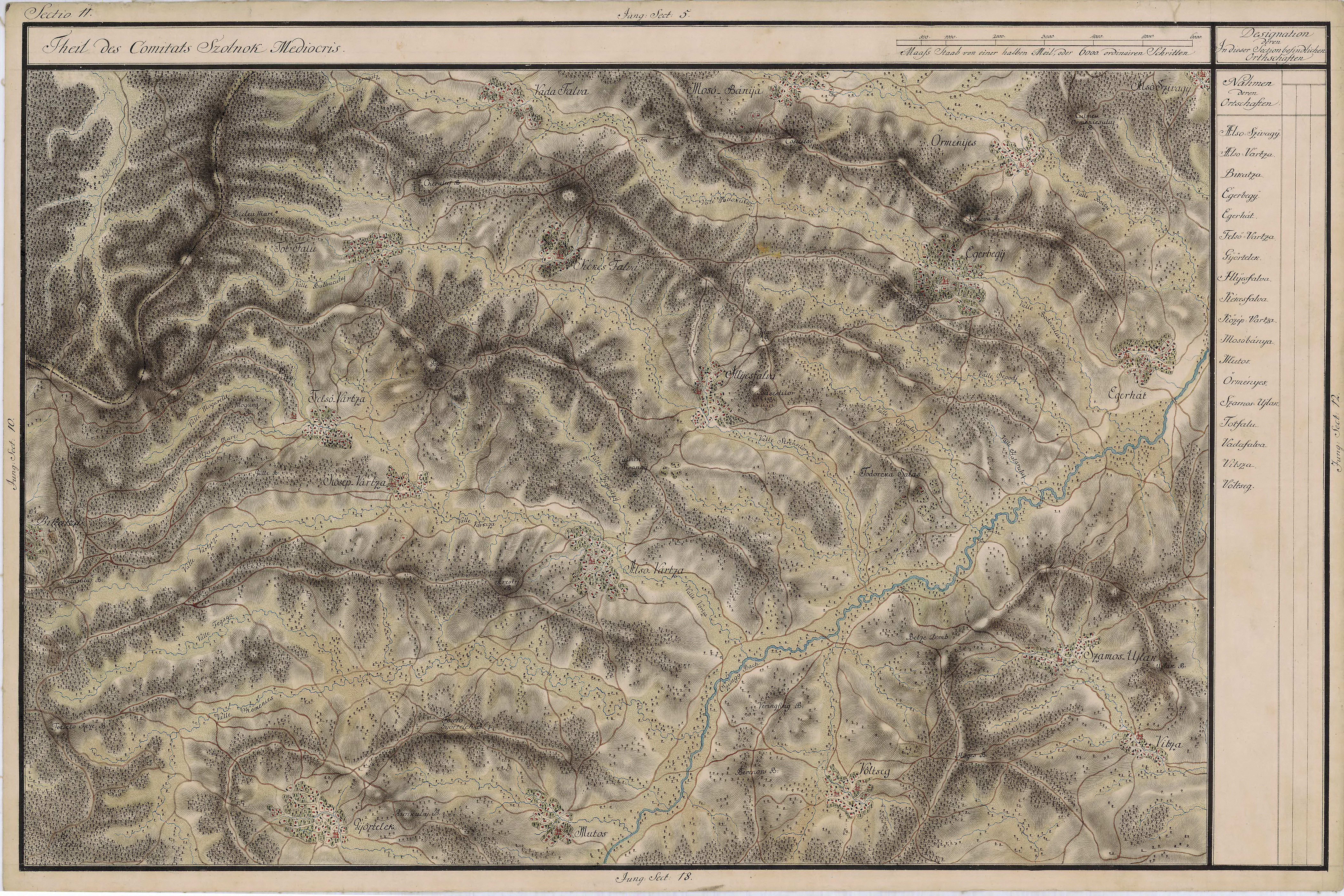 Grand Duchy of Transylvania, 1769-1773. Josephinische Landaufnahme pg.011